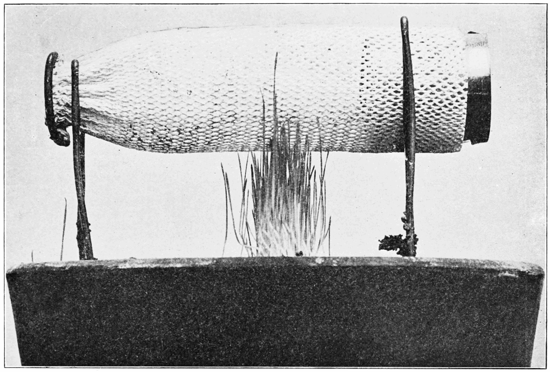 Thorium radioactive incandescent gas mantle placed above plant seeds